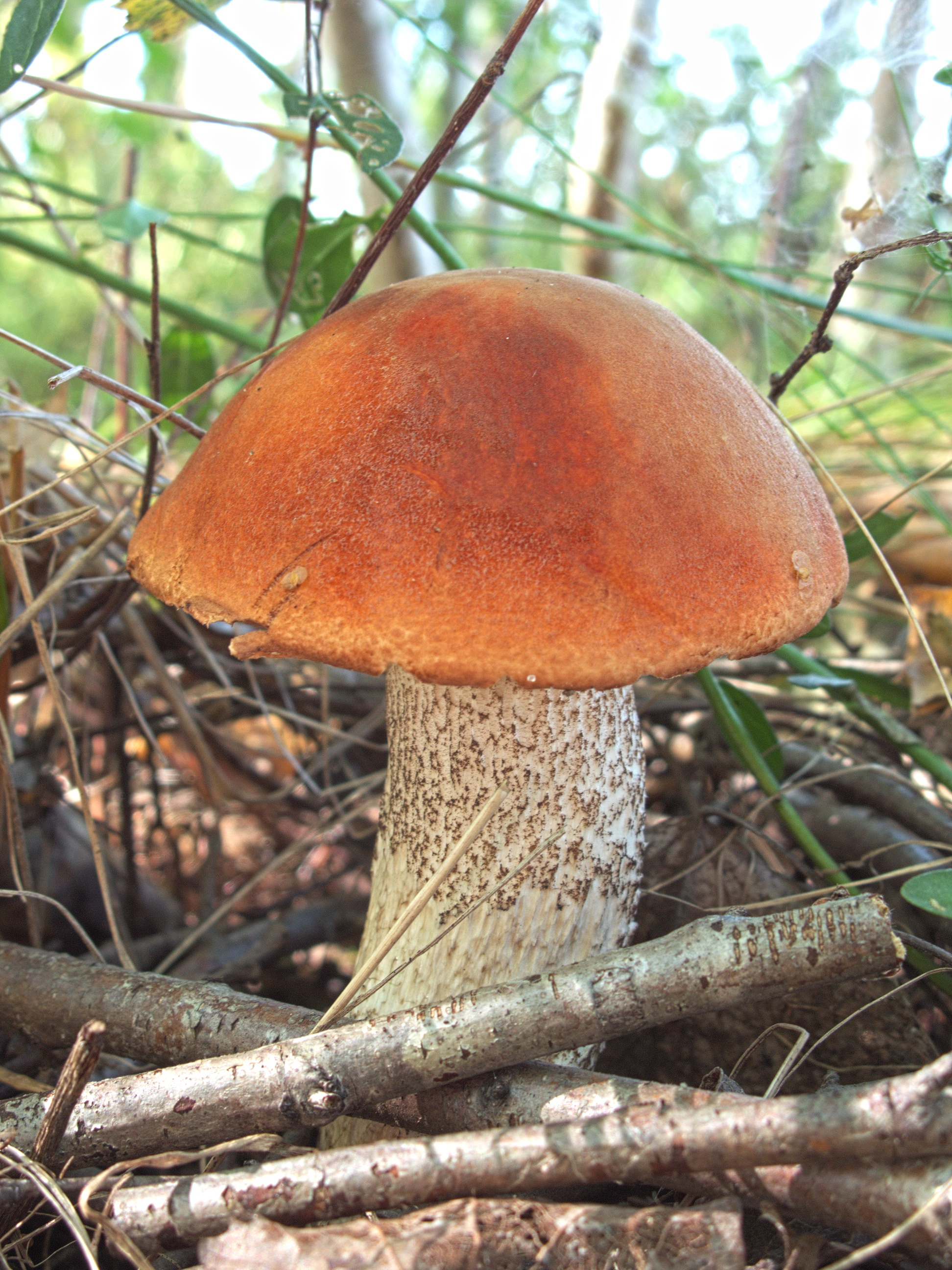 Red-capped scaber stalk.